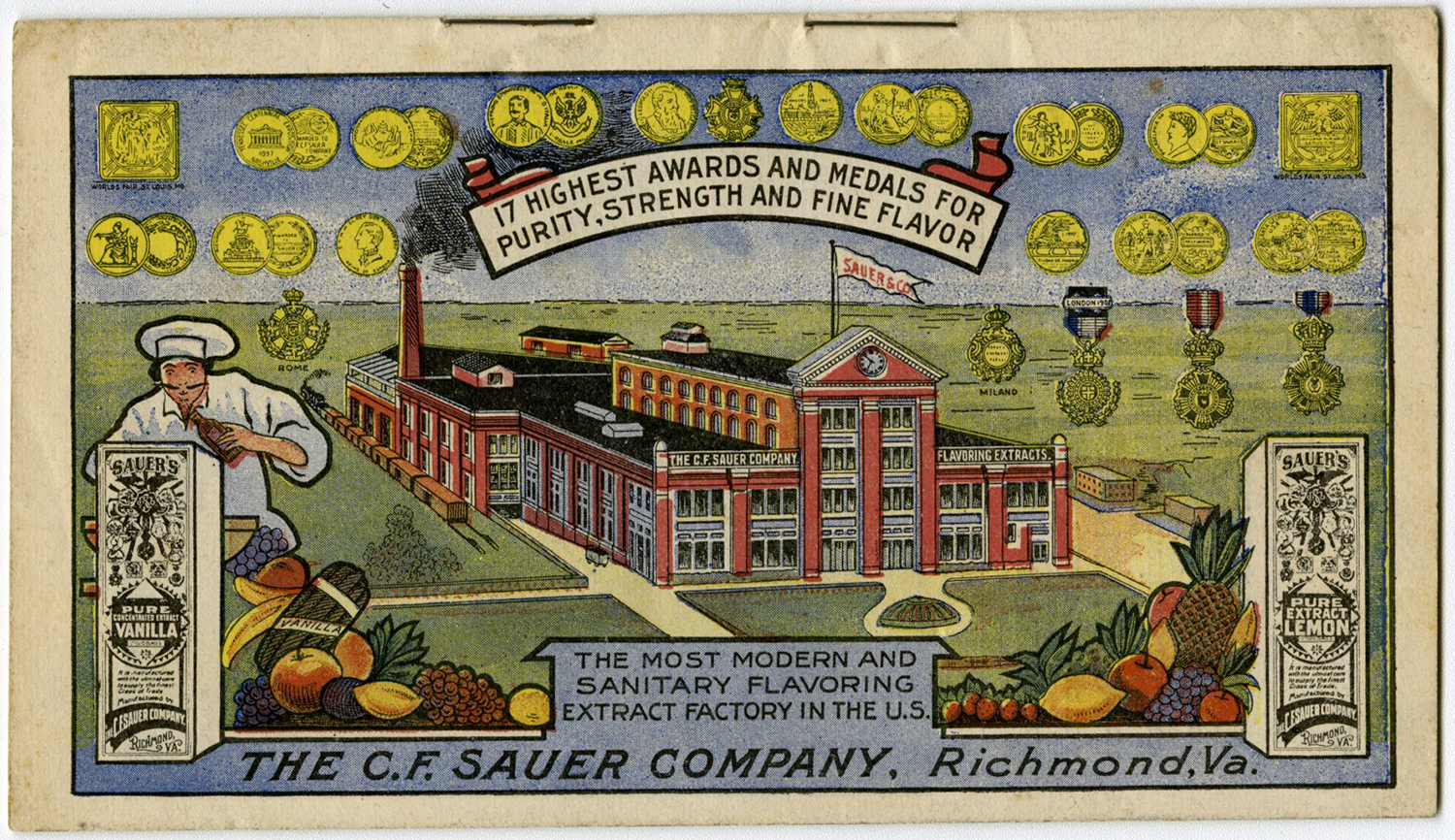 Title: Choice recipes : Sauer's famous flavoring extracts. Other Title(s): Sauer's famous flavoring extracts Author/Creator: C.F. Sauer Company Subjects: C.F. Sauer Company; Flavoring essences; Cooking (Vanilla); Cooking Description: Note: Cover title. Note: Promotional literature for C.F. Sauer Co., manufacturer of Sauer's Vanilla and other "Sauer's Flavoring Extracts." Note: "Sauer's flavoring extracts have been awarded the grand prix at the Panama-Pacific Exposition [1915] also San Diego Exposition [1915-1917]."--Cover, page [2]. Note: Color illustrations on cover. Related name(s): Charles E. Brownell Collection (VCU) Publisher: Richmond, Va. : C.F. Sauer Co. Creation Date: 1915? Format: 24 p. : ill. ; 15 cm.. Language: English Identifier: OCLC Number:79911120 Source: VCU ALMA